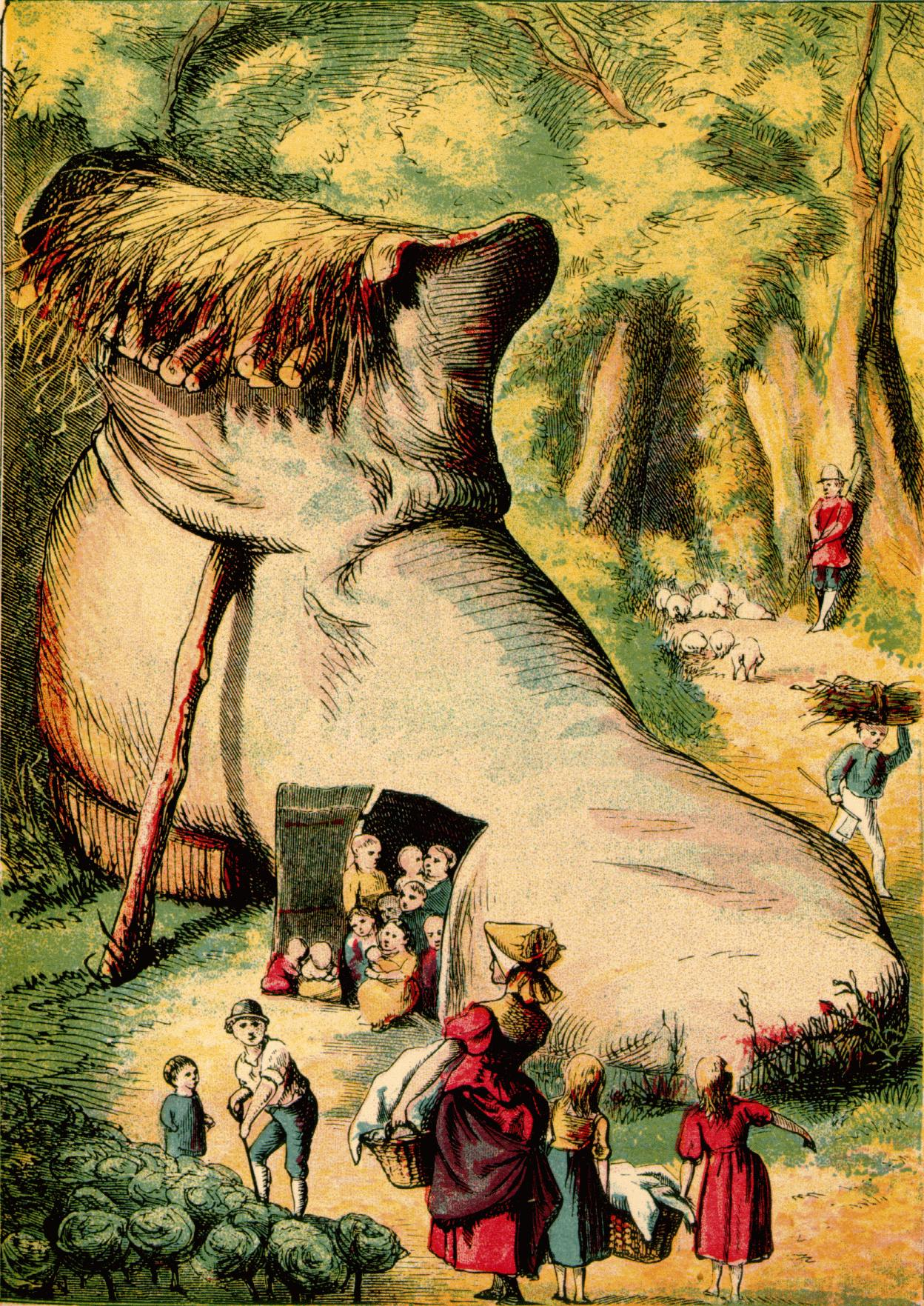 Drawing of the Nursery Rhyme "There was an Old Woman who lived in a shoe"